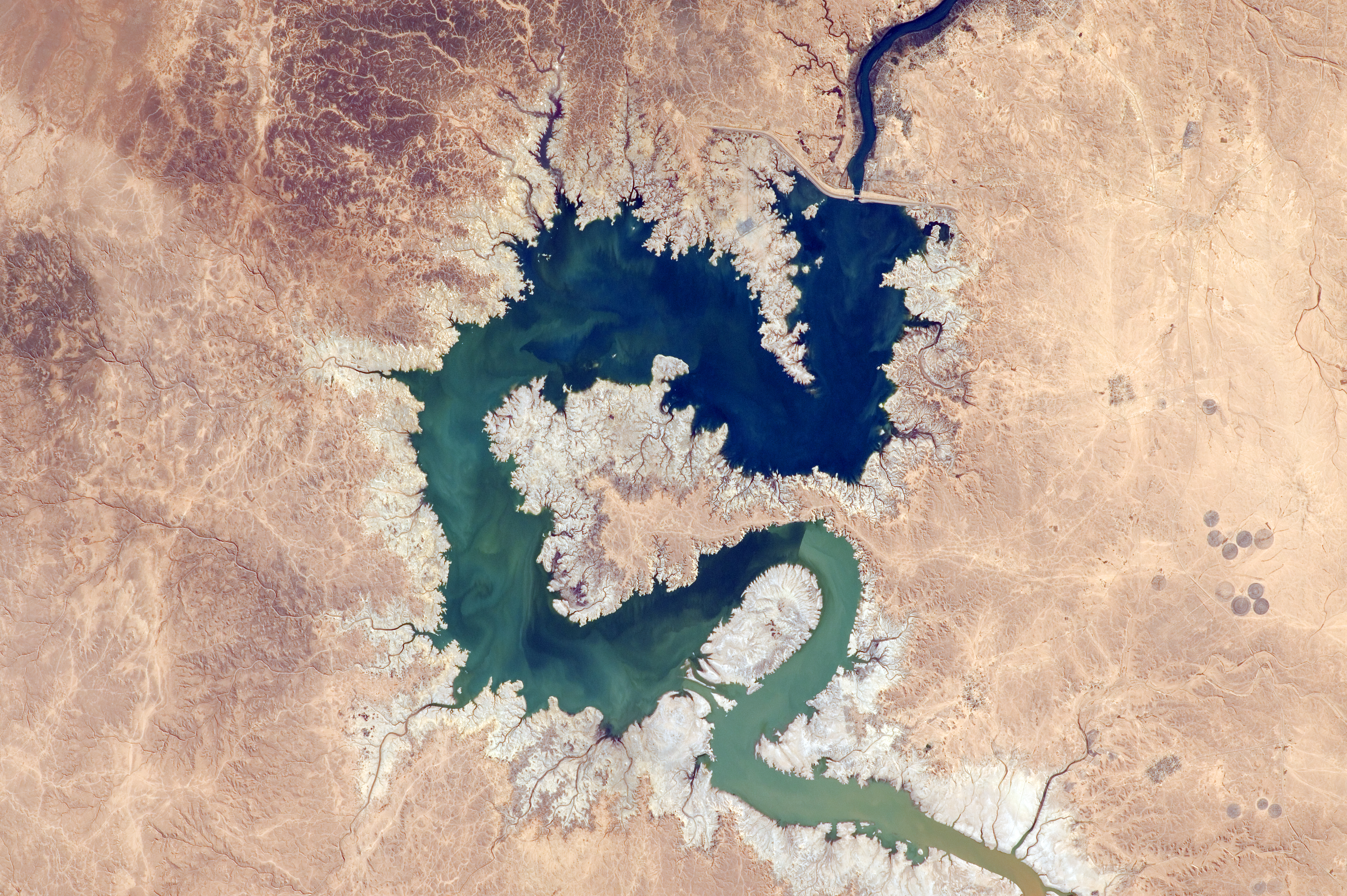 Lake Qadisiyah, as seen from the ISS "Colors patiently swirl in a reservoir in Iraq. The #StoryOfWater." - Kjell Lindgren